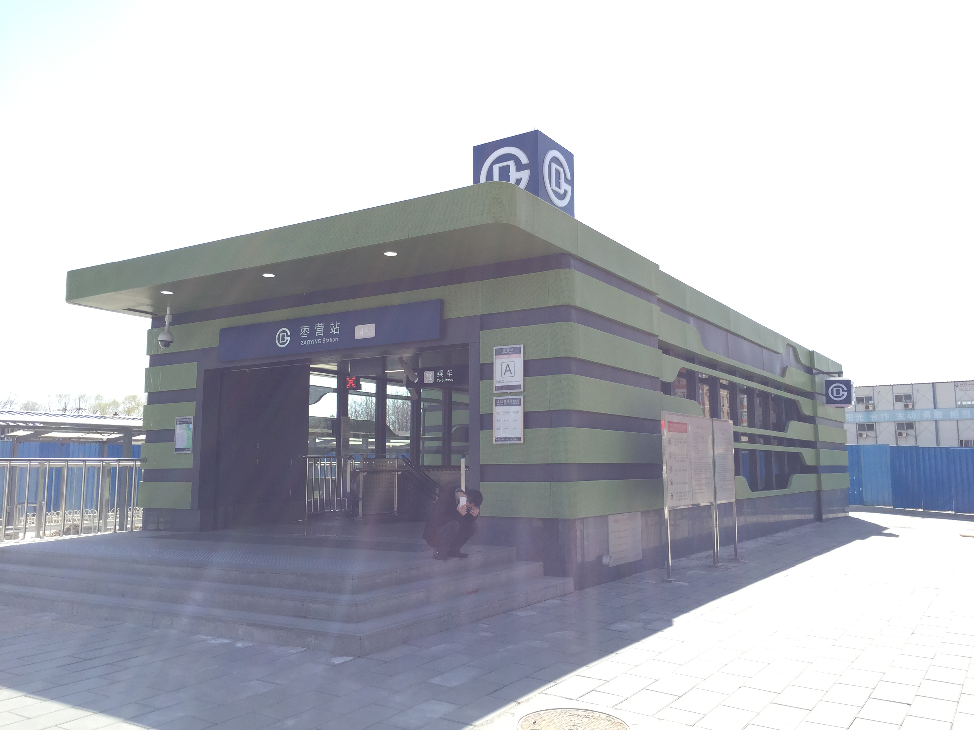 The A exit, while Chaoyang Park station is still under construction.